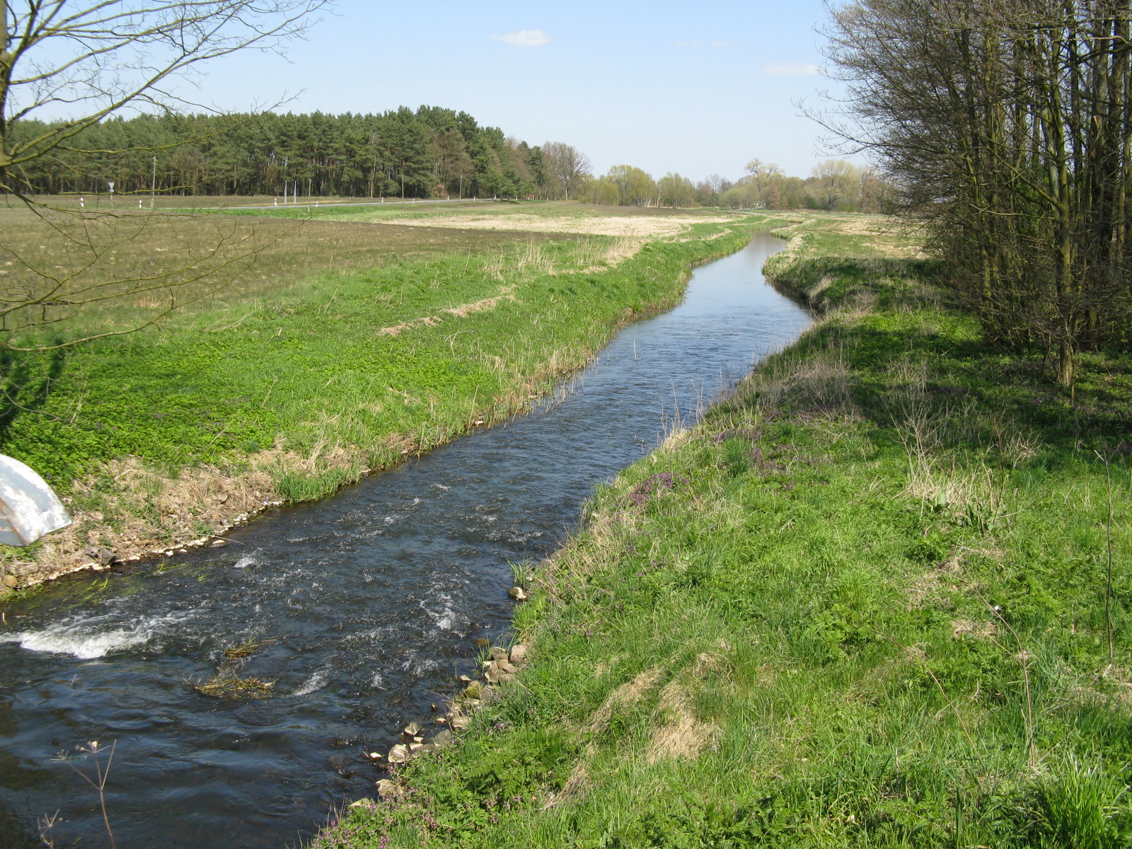 Mooster river near Groß Pankow, Mecklenburg-Vorpommern, Germany